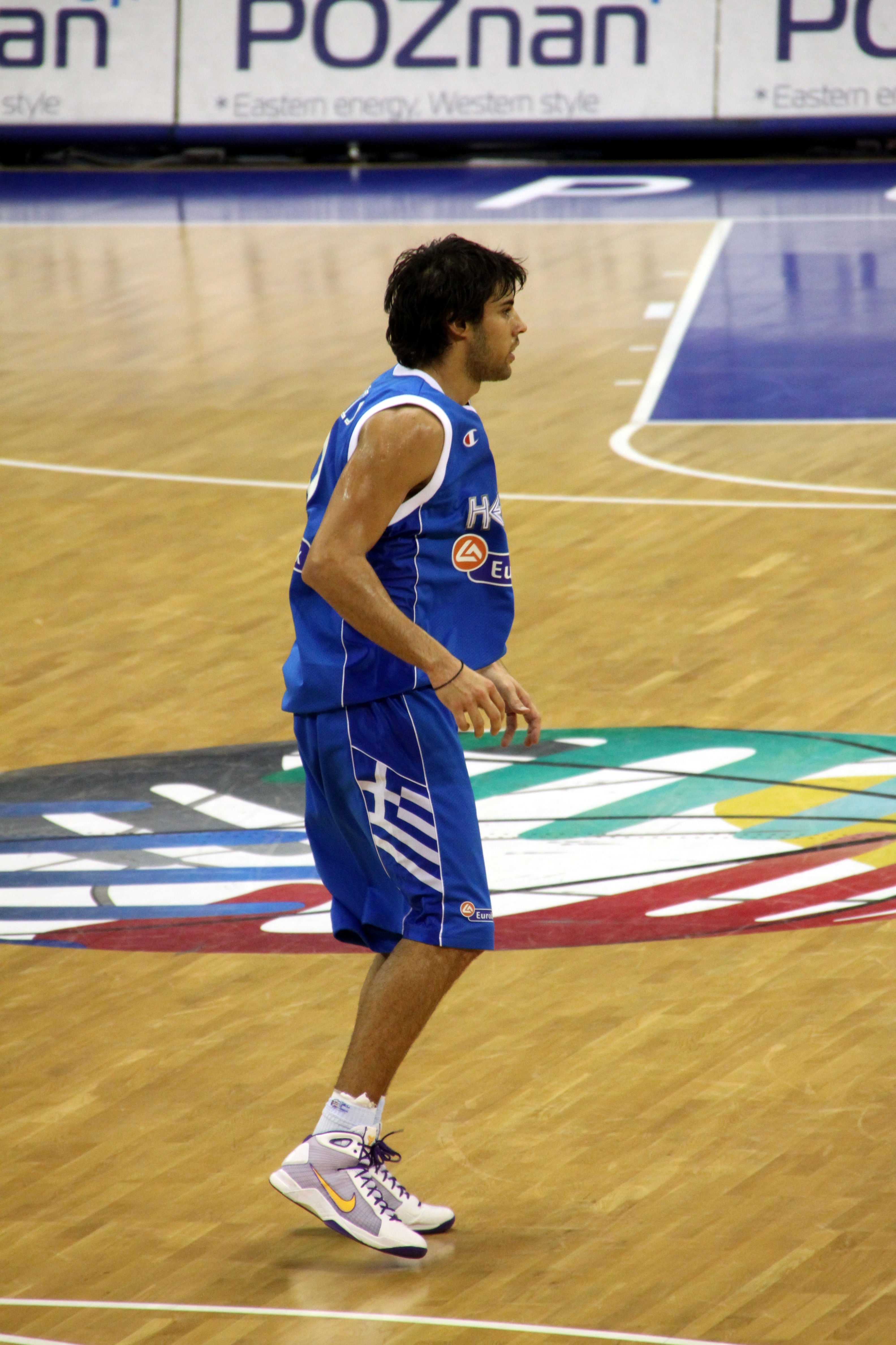 The Power Forward of the Greek basketball team, Georgios Printezis [Israel 80-106 Greece, Eurobasket 2009, Poland]